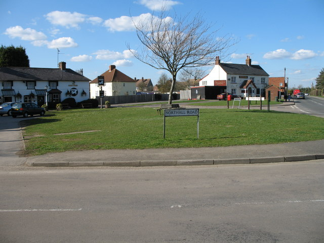 Village Green - Eaton Bray. The green is divided by a road and served by two pubs - The Five Bells on the Right and The White Horse on the left.